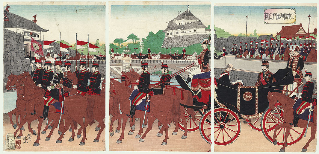 Imperial carriage, Meiji period -- 19th century print, unknown artist